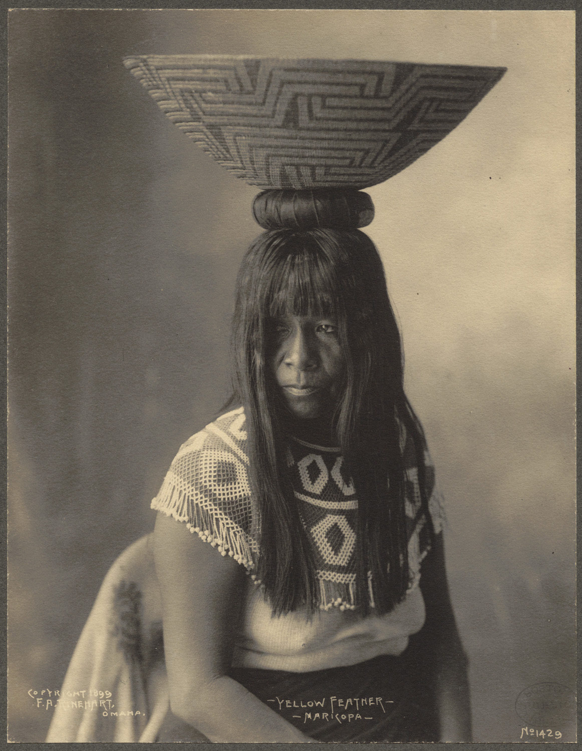 BPLDC no.: 09_03_000046 Title: Attendees of the 1898 Indian Congress : Yellow Feather (Maricopa) Creator: Frank A. Rinehart (1861-1928) Date created: 1898-1899 General format: platinum print photograph BPL Department: Print Department Description: Rinehart, a commercial photographer in Omaha, Nebraska, was commissioned to photograph the 1898 Indian Congress, part of the Trans-Mississippi International Exposition. More than five hundred Native Americans from thirty-five tribes attended the conference, providing the gifted photographer and artist an opportunity to create a stunning visual document of Native American life and culture at the dawn of the 20th century. Although the portraits are posed and artistically lighted in his studio, they have a candid intimacy that allows his subjects individuality and dignity, a quality not shared by most 19th-century ethnographic photography. Rinehart printed the photographs as platinum prints, a photographic medium known for its delicate tonal range and permanence.